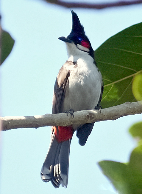 Red-whiskered Bulbul Pycnonotus jocosus in Kolkata, West Bengal, India.